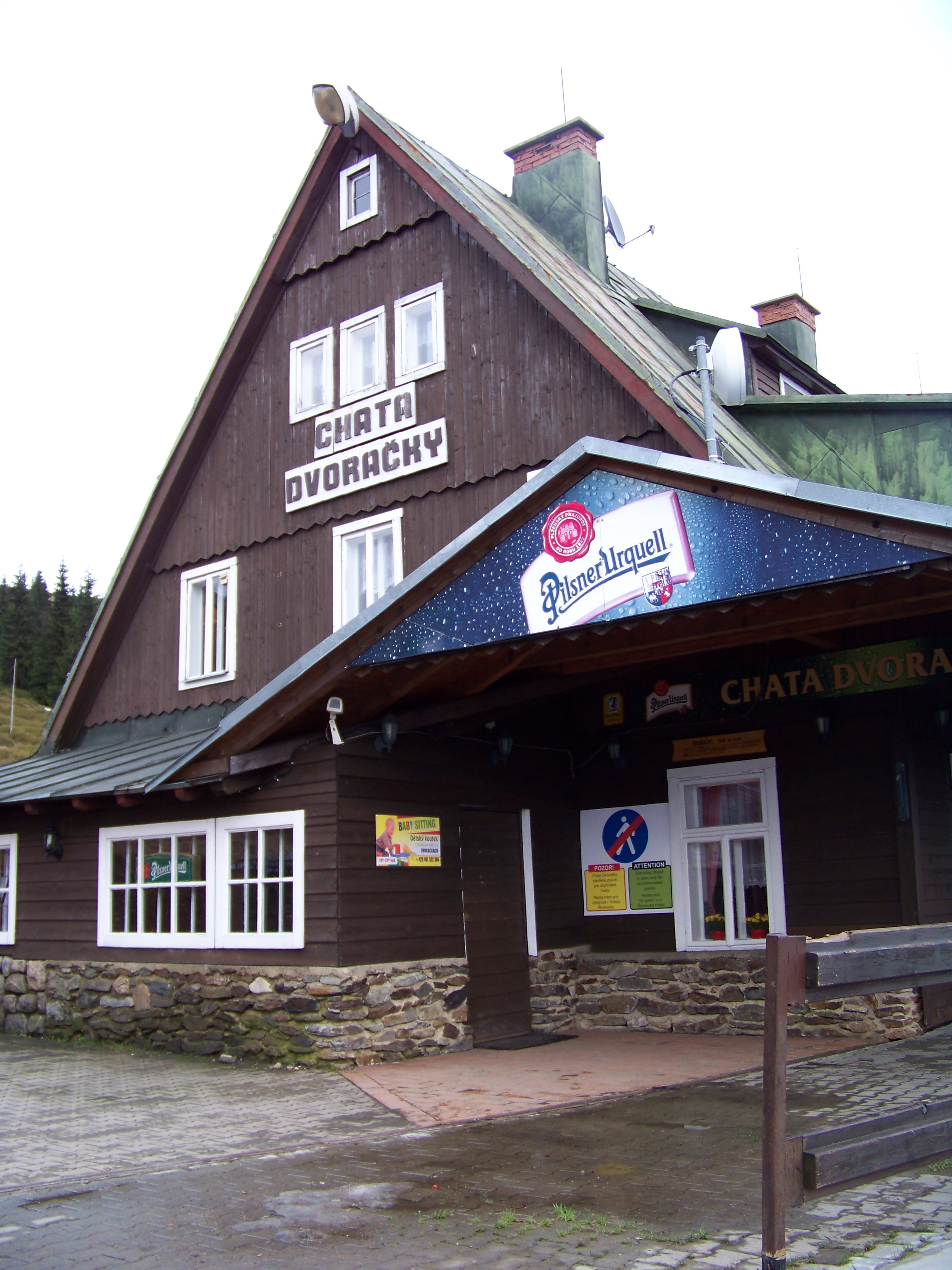 Rokytnice nad Jizerou-Rokytno, Semily District, Liberec Region, the Czech Republic. Dvoračky Hostel. - Google Maps - Google Earth